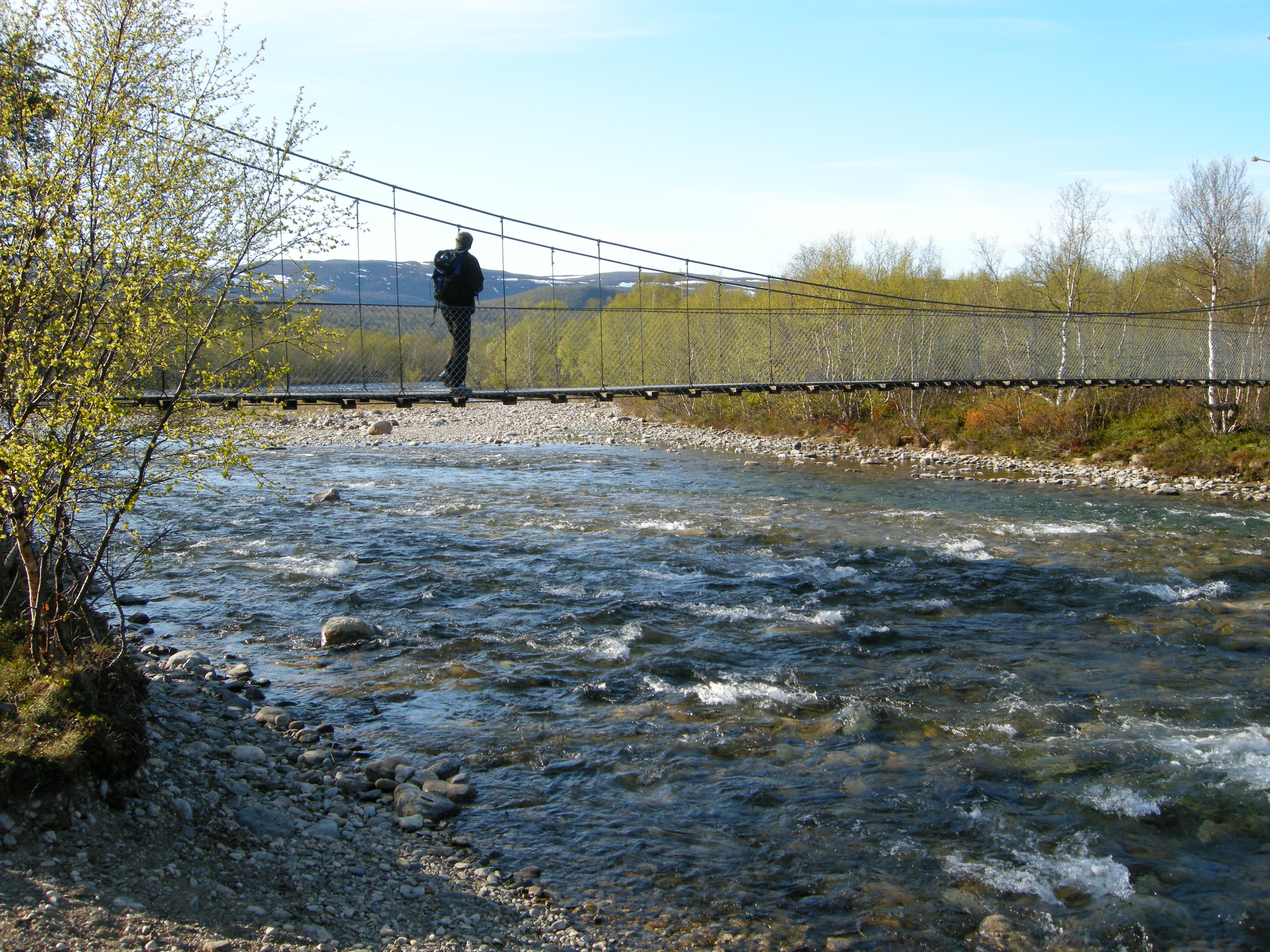 Bridge in Stabbursdalen